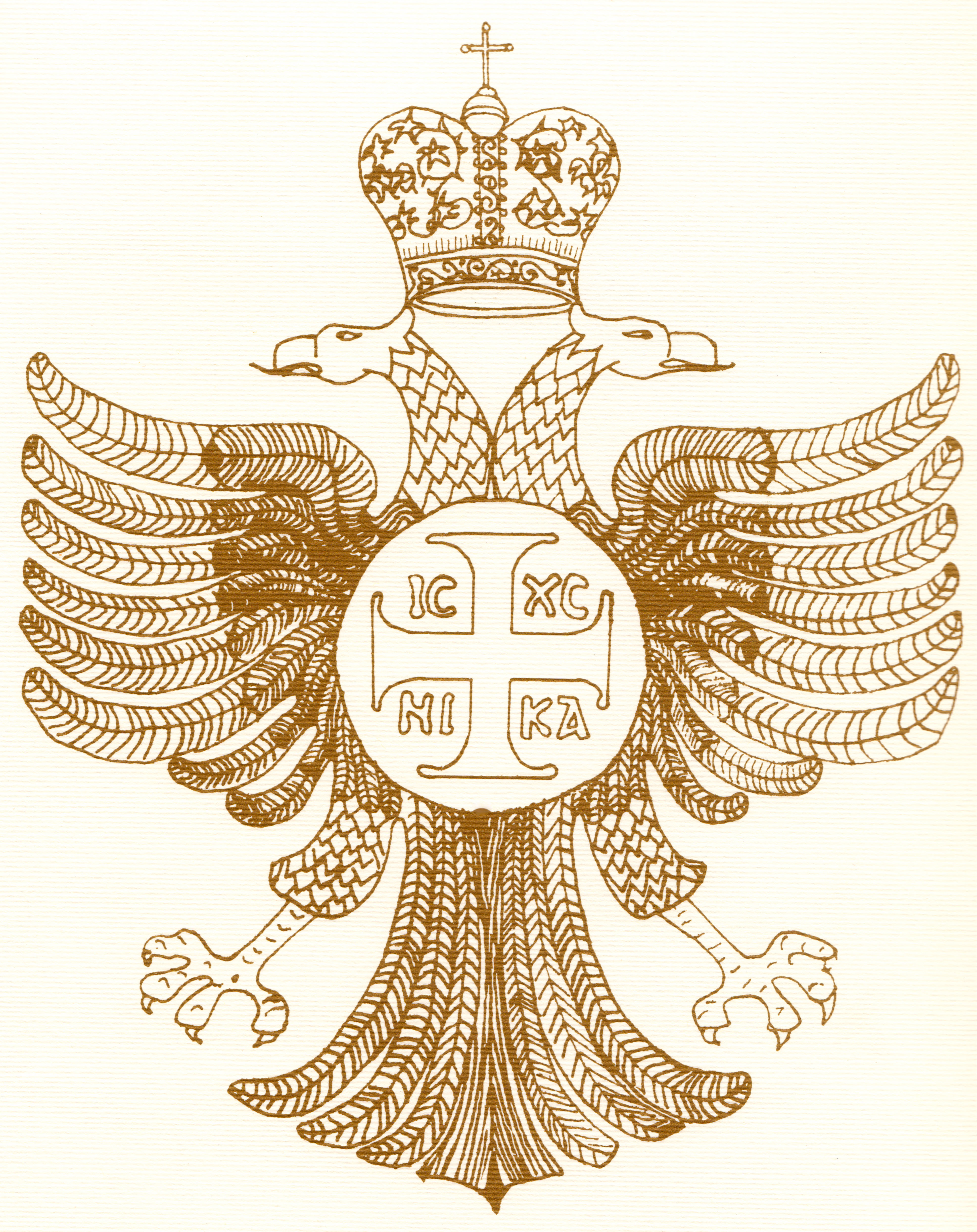 Emblem of the Eparchy of Piana degli Albanesi (Italo-Albanian Church). The crowned and gilded double-headed eagle recalls the faithfulness of the Eparchy to its Albanians and Byzantine roots, while the golden cross on the eagle's breast testifies to the basic principle of the Christian faith that Christ, "crucified for our salvation", is risen victorious over death.